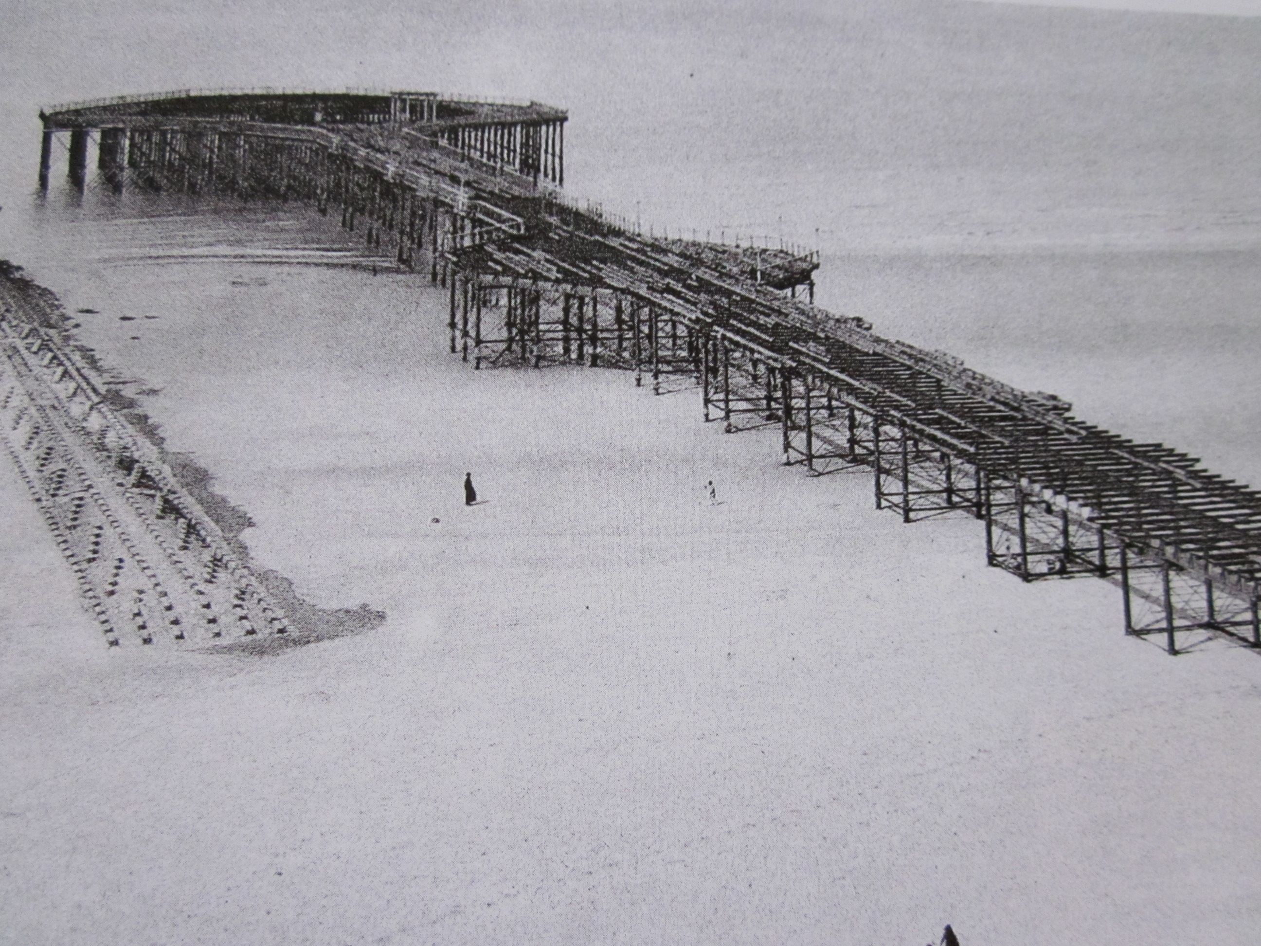 First pleasure pier of Blankenberge (built in 1894), after its destruction in World War I